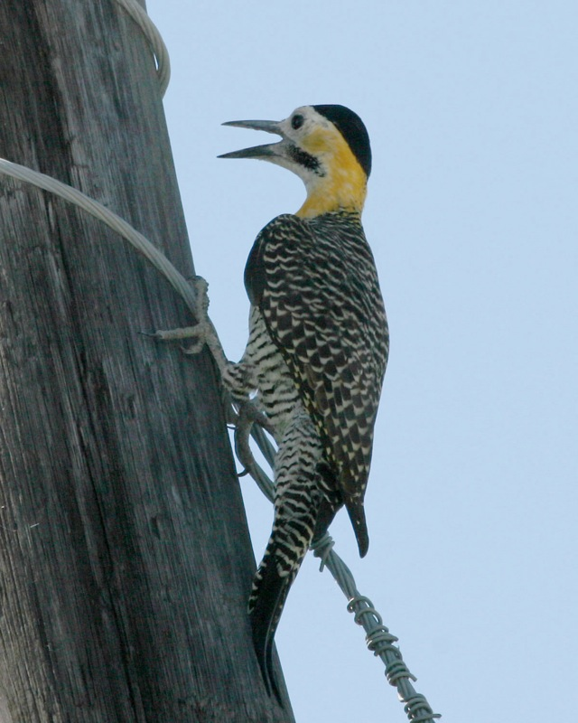 Field flicker, Campo flicker Colaptes campestris Ibera Marshes 2nd. April 2006